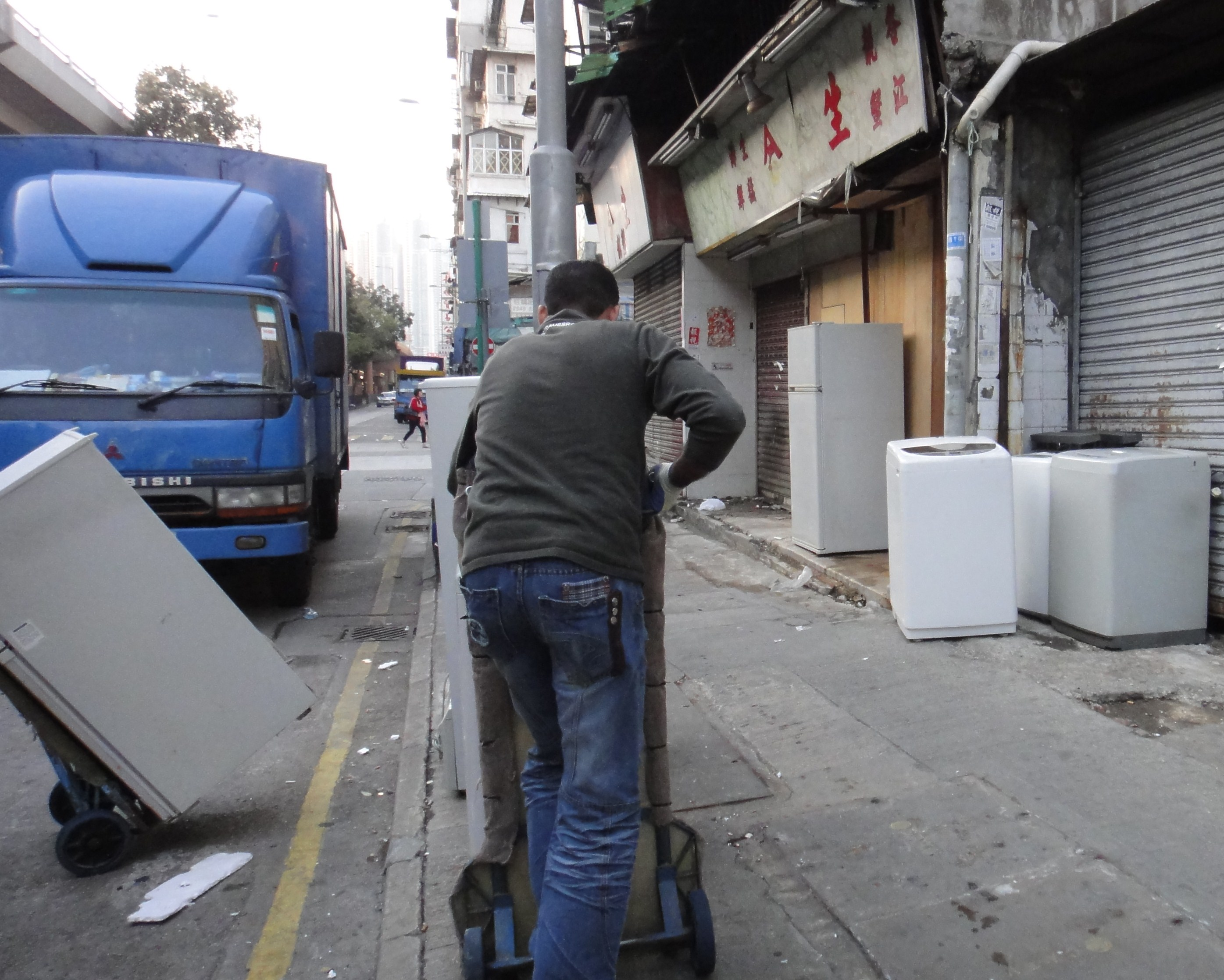 Electronic Recycle Bin Items